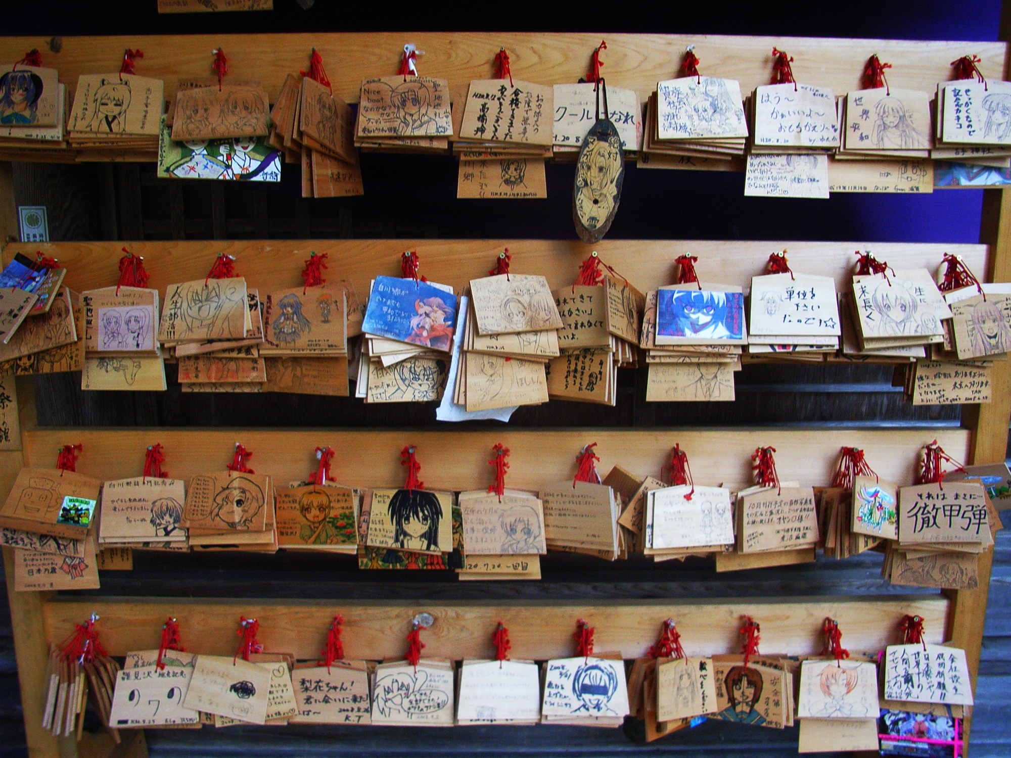 Shirakawa-hachiman Shrine in Shirakawa-Go emakake fulled with emas of Higurashi no Naku Koro ni game characters.